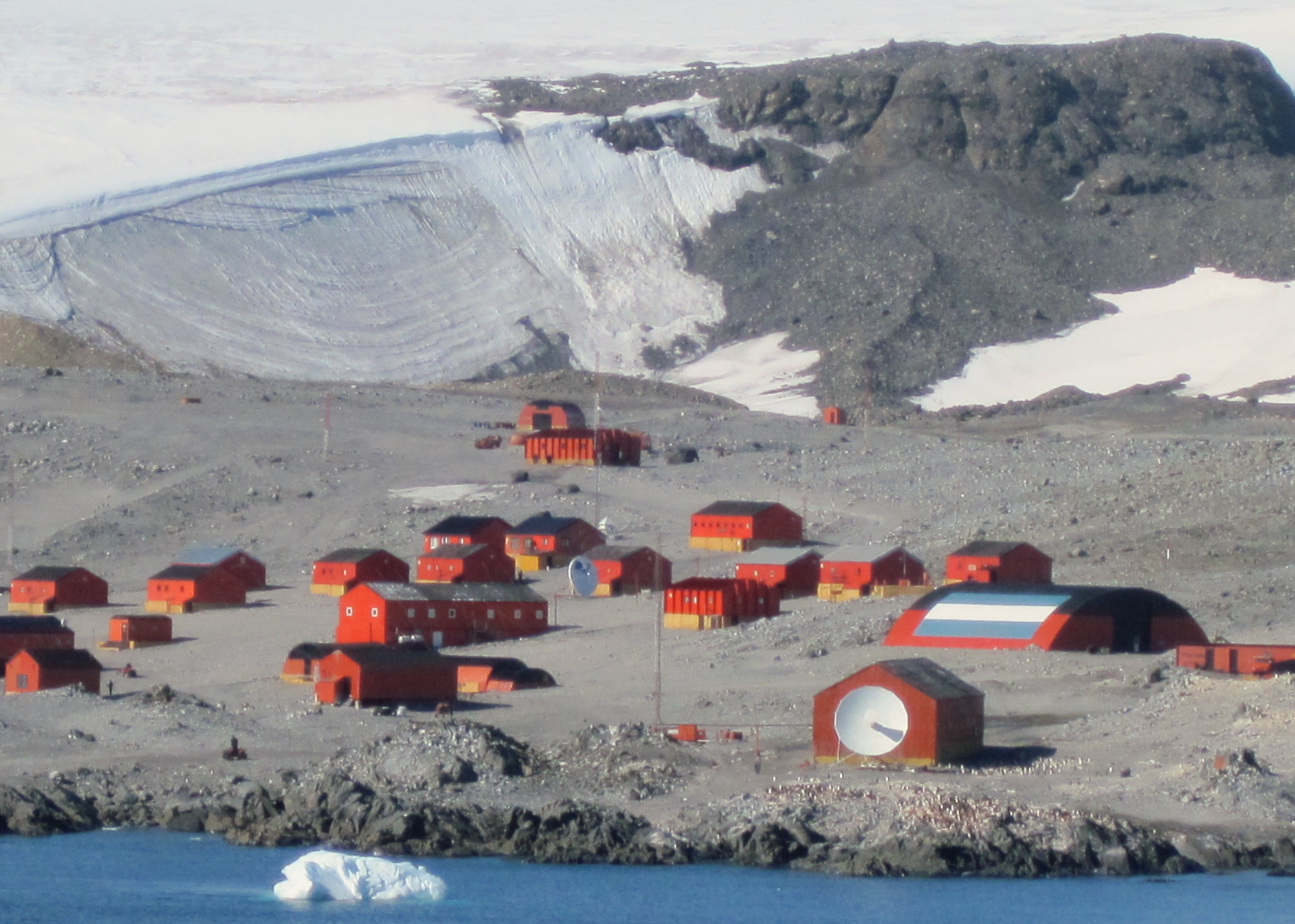 Argentine Antarctic settlement "Esperanza" seen from onboard ship in Hope Bay